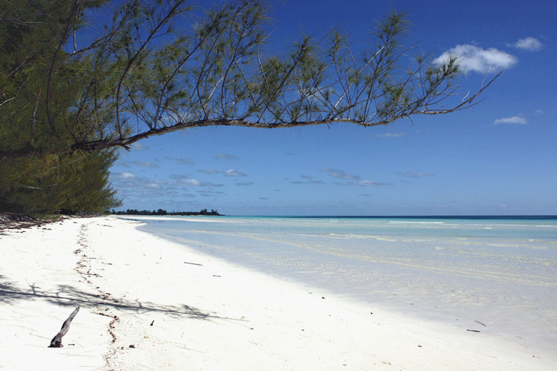 Casuarina branch over Gold Rock Beach, Grand Bahama